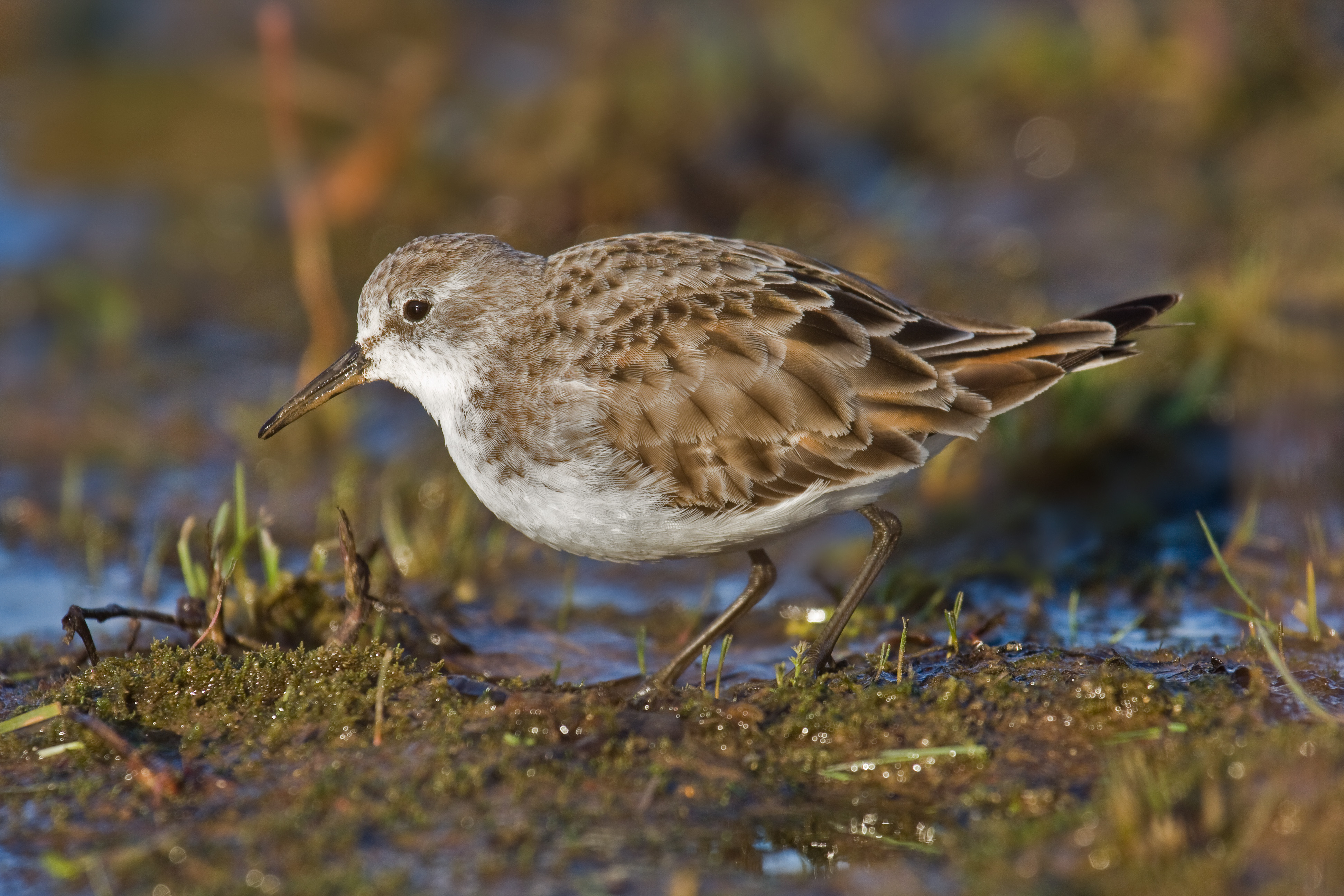 Little Stint possible female bird in the second calendar year